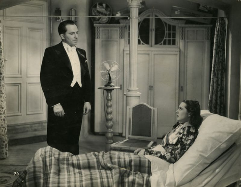 Scene from the Hungarian movie titled A varieté csillagai (released in 1939)